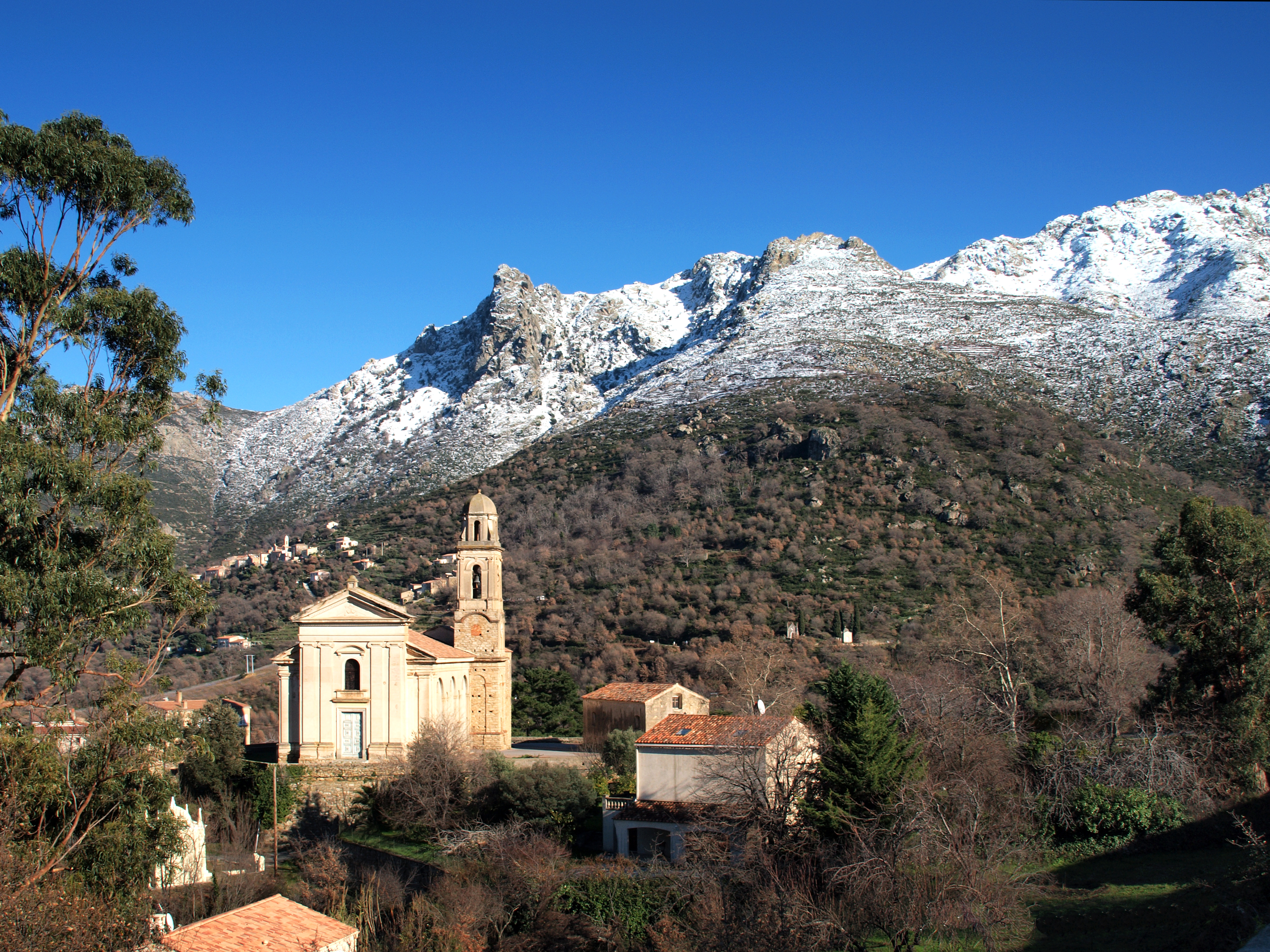 Saint Nicolas church in Feliceto, Corsica. In the background, the village of Nessa